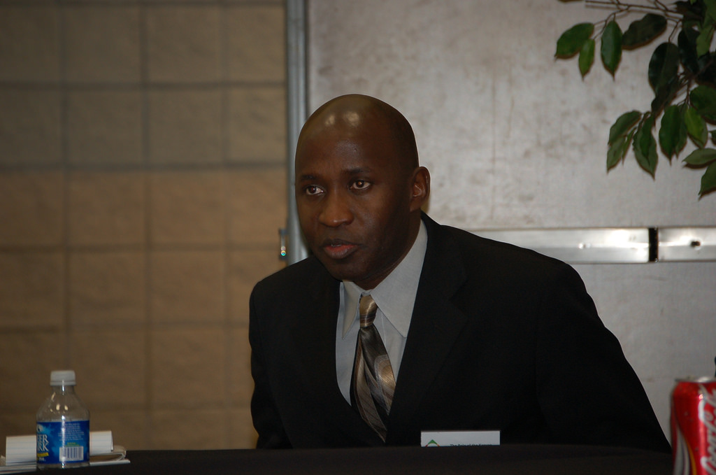 professor olubayi